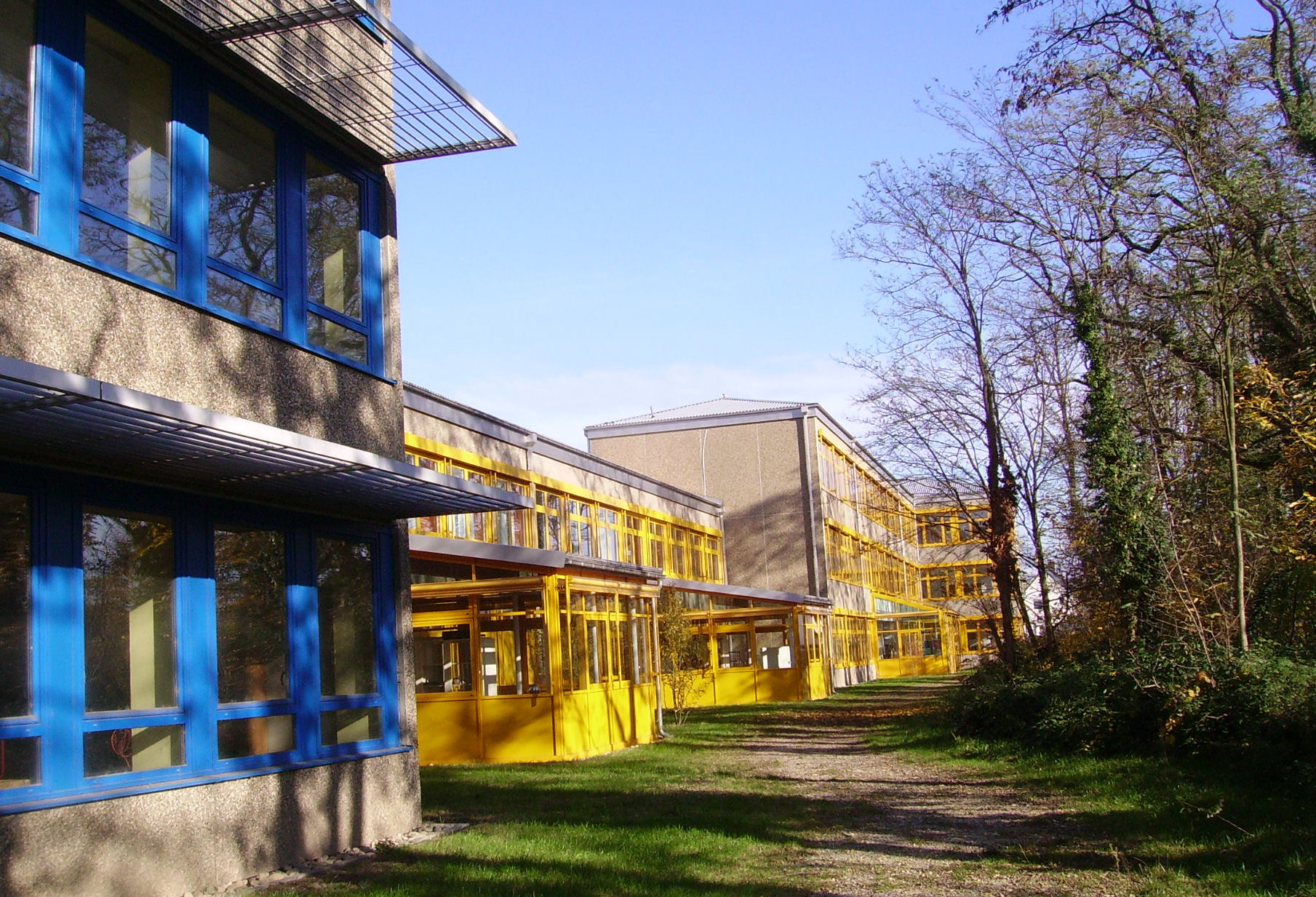 Maxdorf in Rhineland-Palatinate, Germany